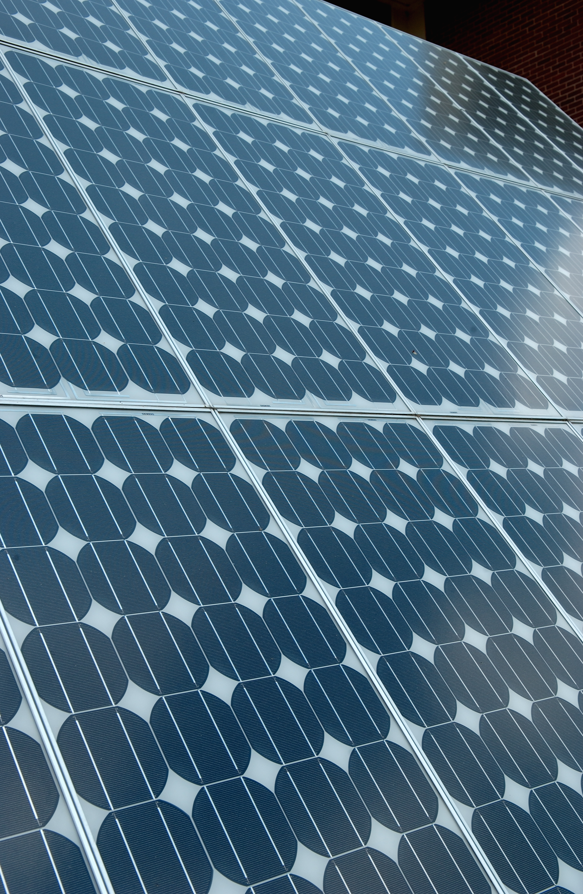 Emmitsburg, MD June 1, 2005 -- Solar panels being tested as an additional and alternative source of energy. Photo by Bill Koplitz/FEMA photo